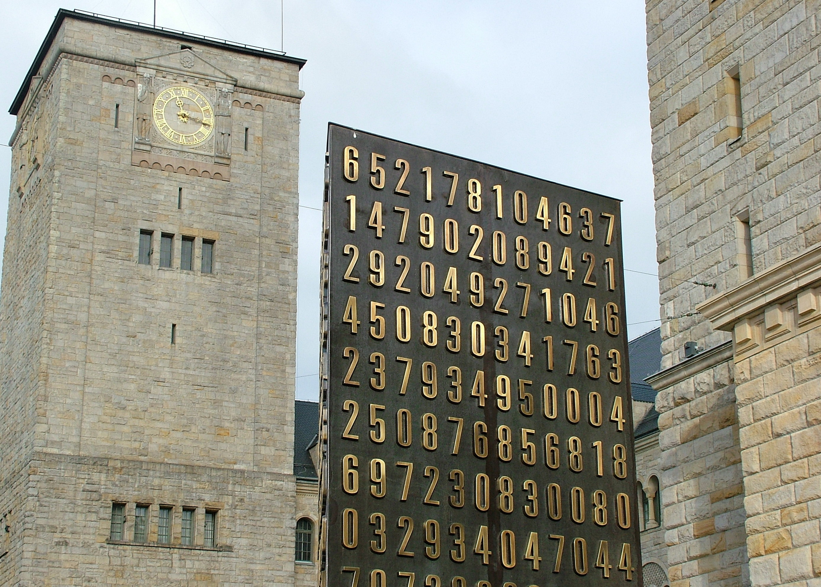 Poznań monument (center) to Polish cryptologists whose breaking of Germany's Enigma machine ciphers